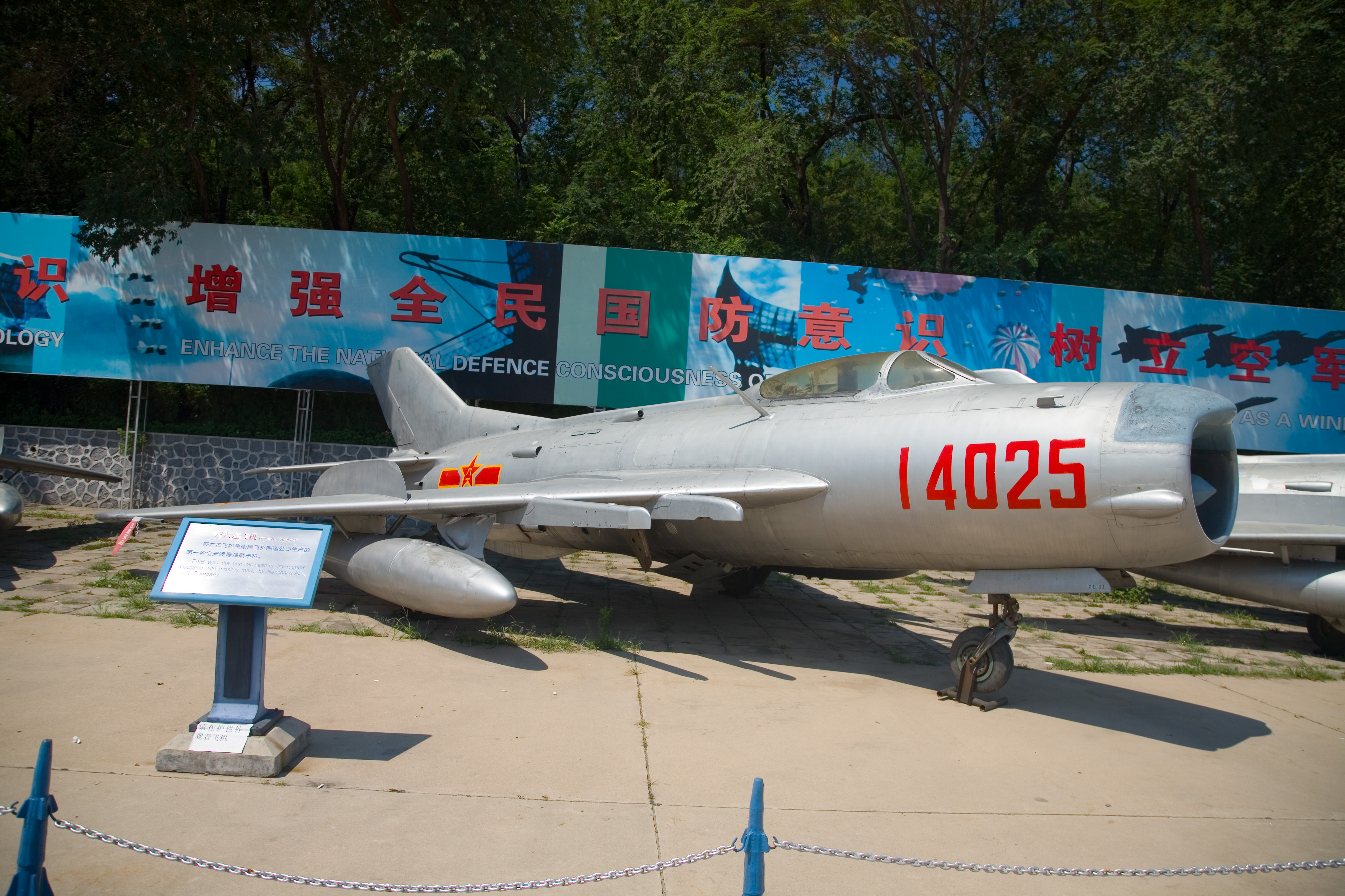 F-6B fighter at the China Aviation Museum